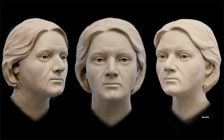 Reconstruction of an unidentified female found murdered in Wisconsin in 1982.